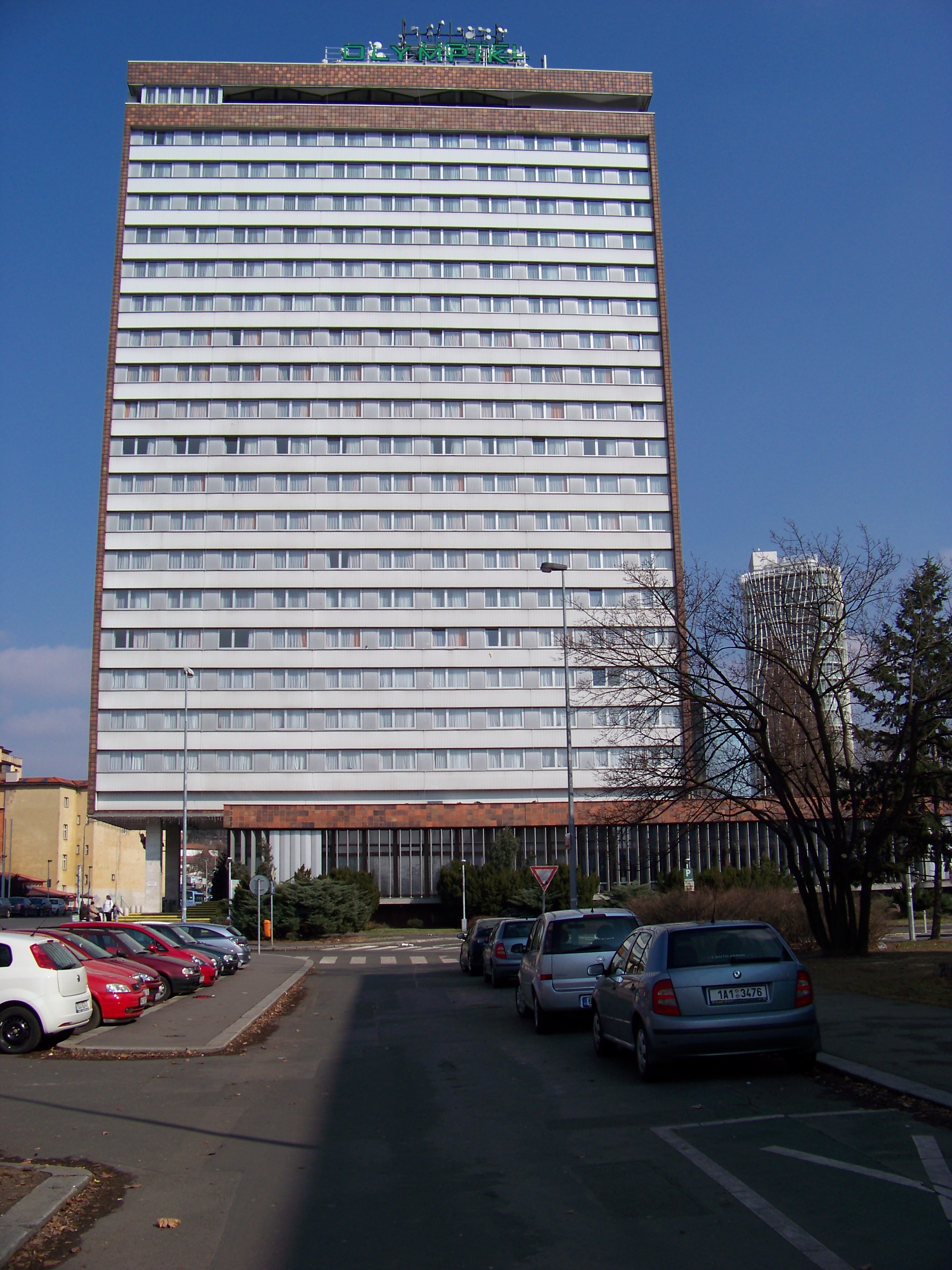 Prague-Karlín, the Czech Republic. K Olympiku street, Hotel Olympik. - OpenStreetMap(Info)